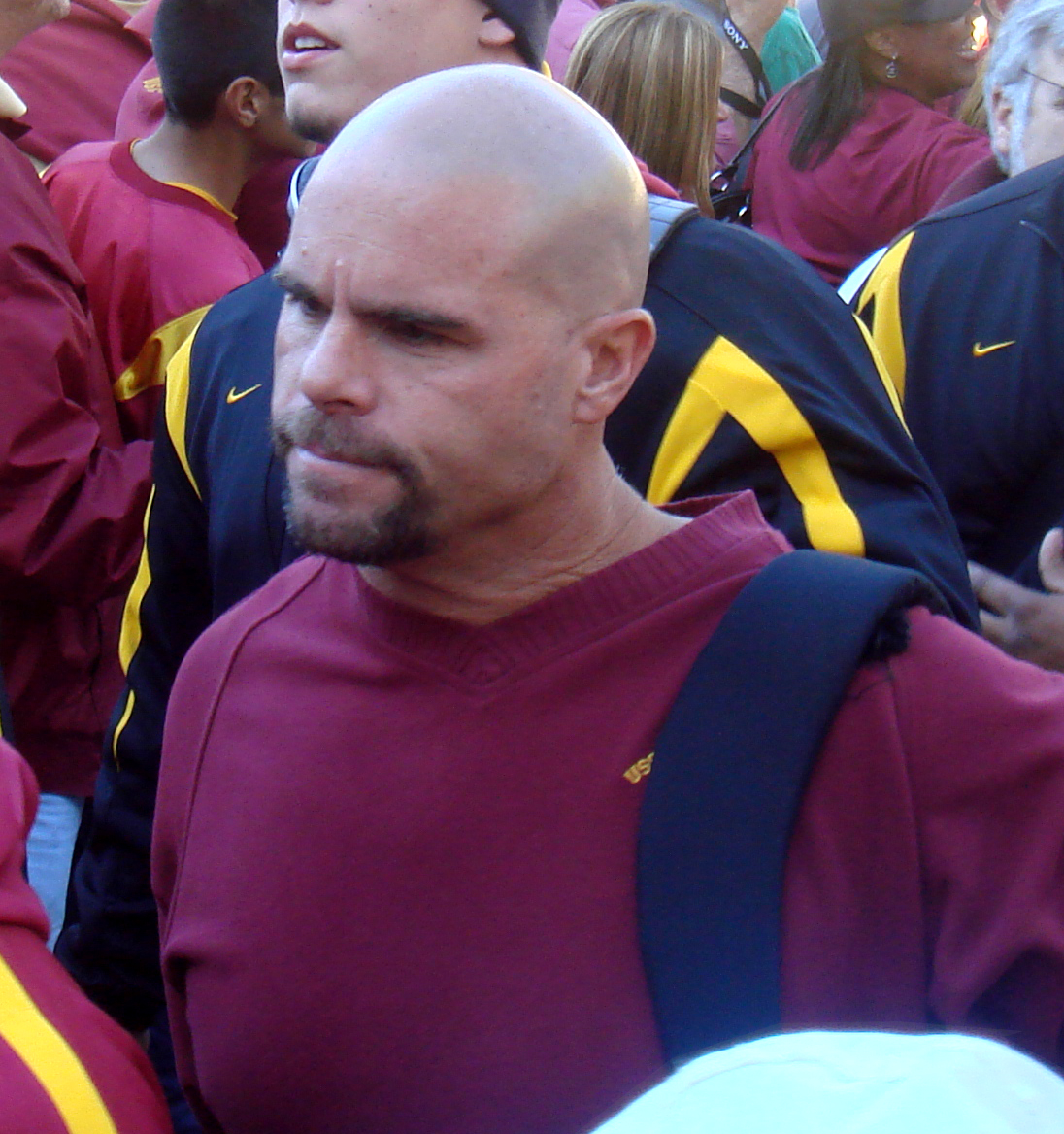 Nick Holt, walking with the rest of the USC Trojans football team towards Notre Dame Stadium.